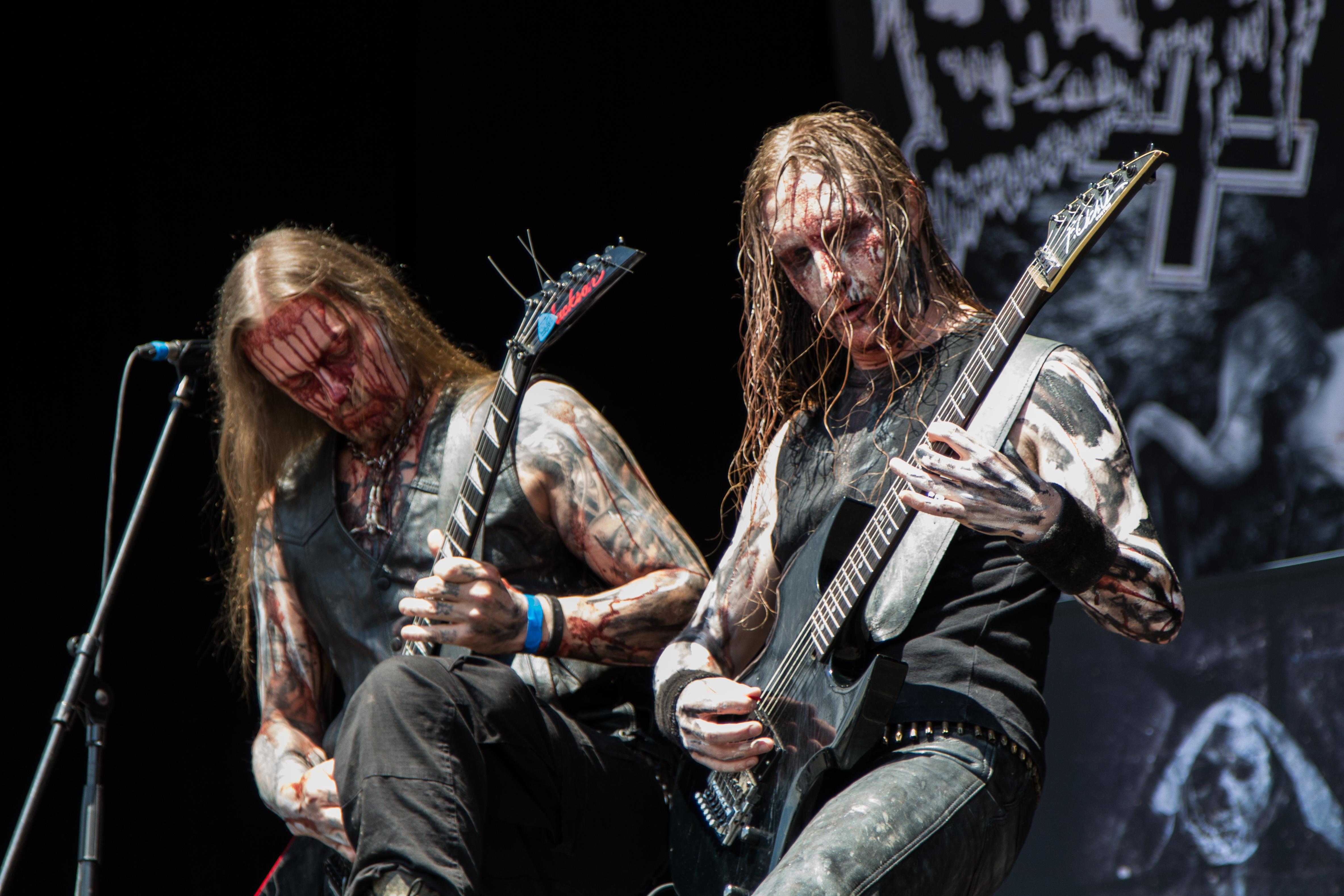 Helmuth Lehner and Schoft from Belphegor at the See-Rock Festival 2014